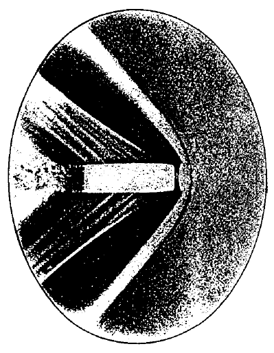 One of the first photograps of the bullet in flight made by Peter Salcher with Ernest Mach in 1886